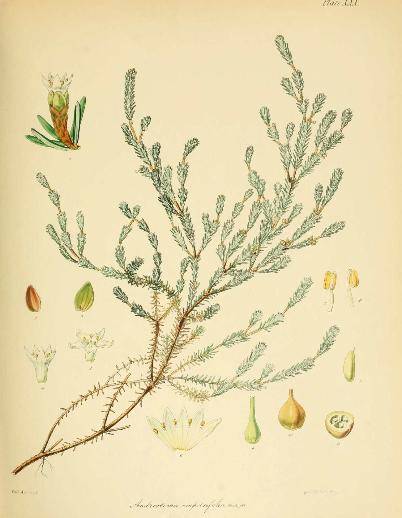 jpg of Plate XXX of Hooker's Flora Antarctica. Androstoma empetrifolia" Hook. fil.